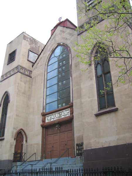 The exterior of Beth Hamedrash Hagodol synagogue in Manhattan, April 2005.